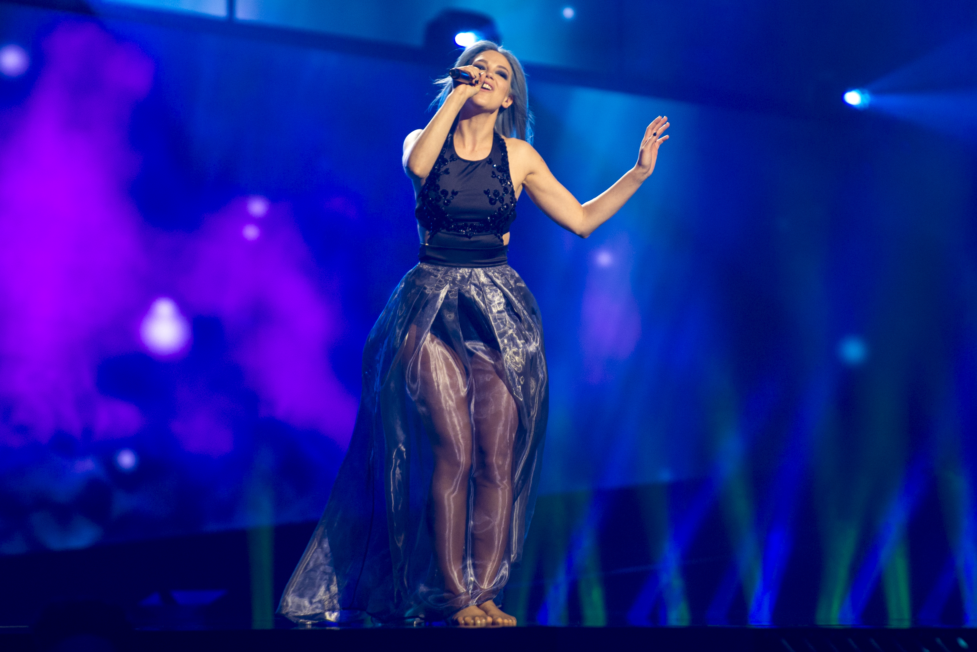 Rykka representing Switzerland with the song "The Last of Our Kind" during a rehearsal before the second semi final of the Eurovision Song Contest 2016 in Stockholm. (Help translate this text)